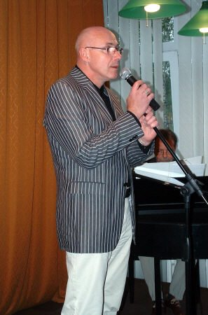 This image has been copied from the source with the permision of webmaster (and with the consent of the director of the service). The permission was granted to Stan Zurek (Zureks) via email from Mirosław Domański Piotr Machalica